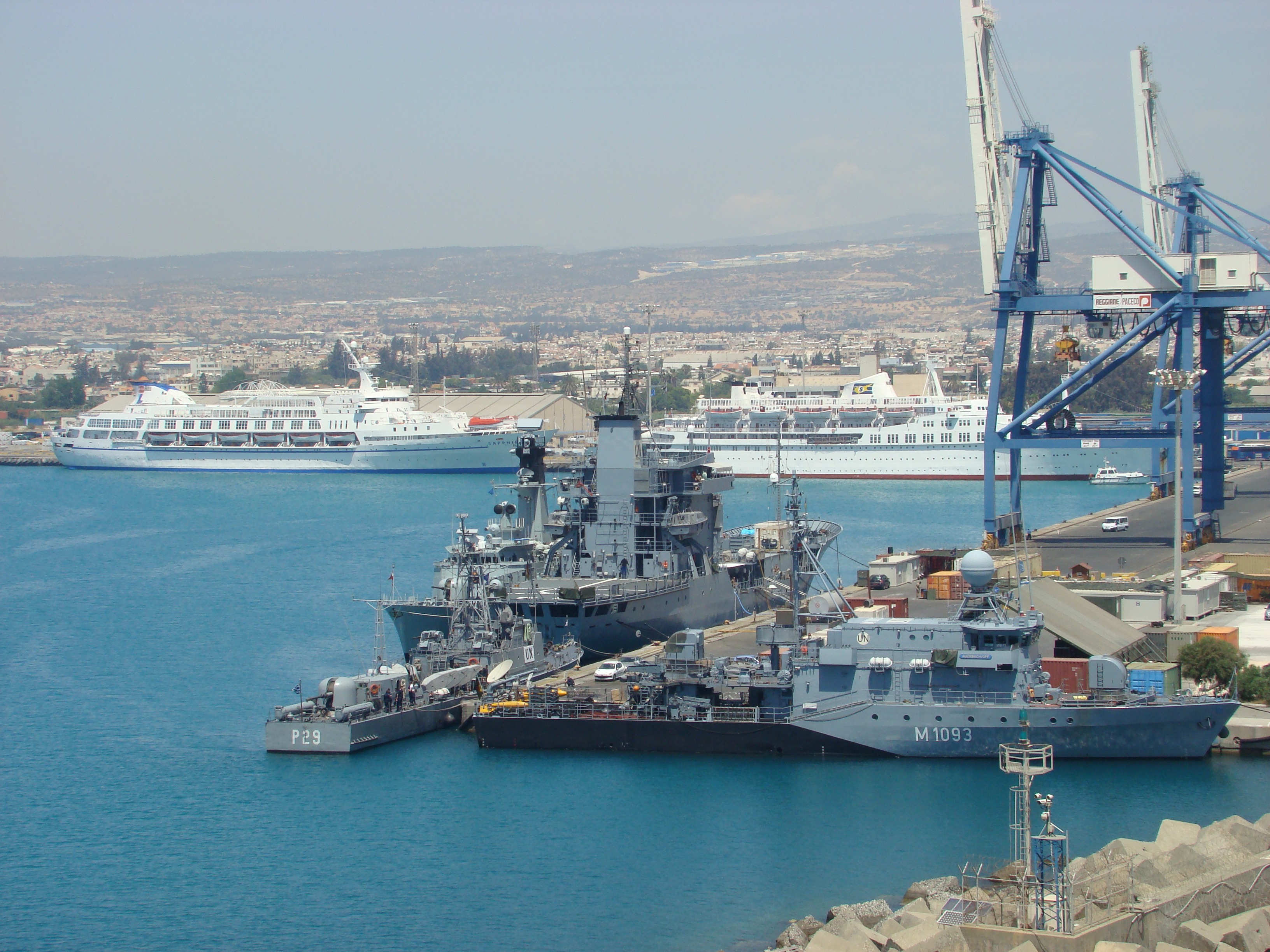 Maritime task force of UN (United Nations Peacekeeping Force in Cyprus)